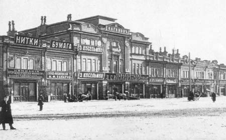 Novy Gostiny Dvor (Yekaterinburg))